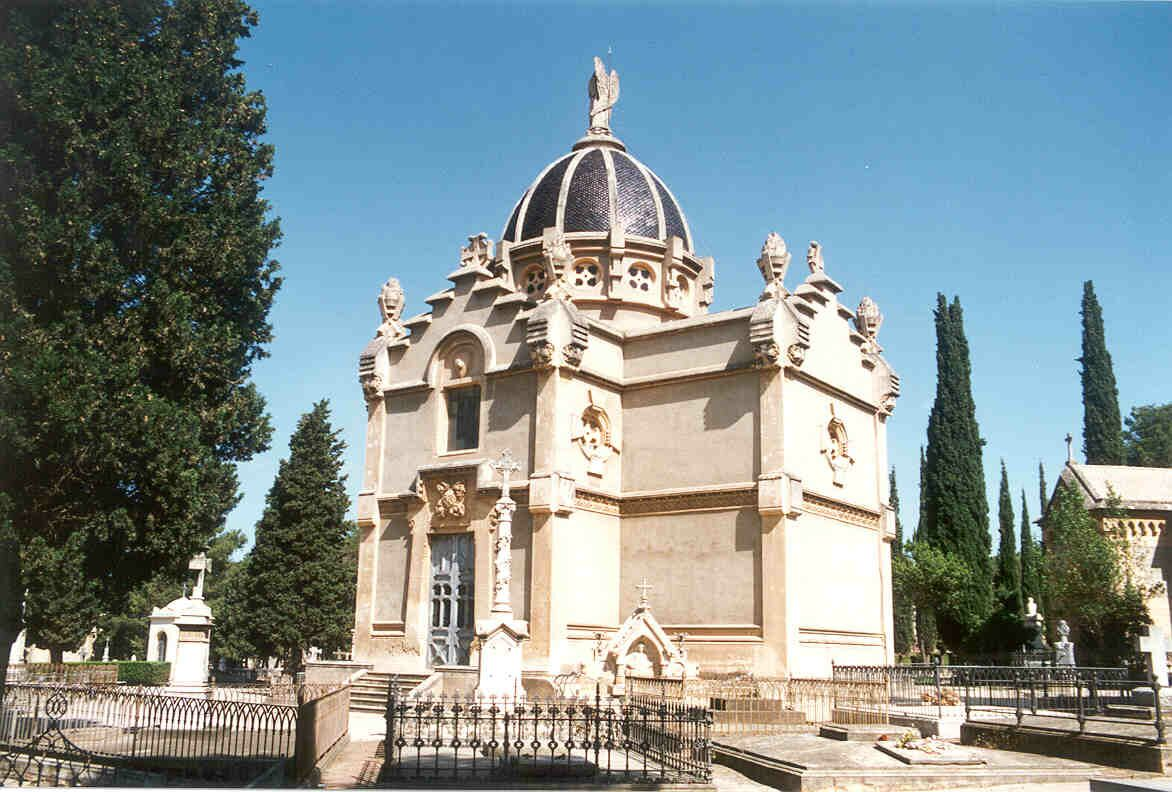 Capella Sant Nicolau